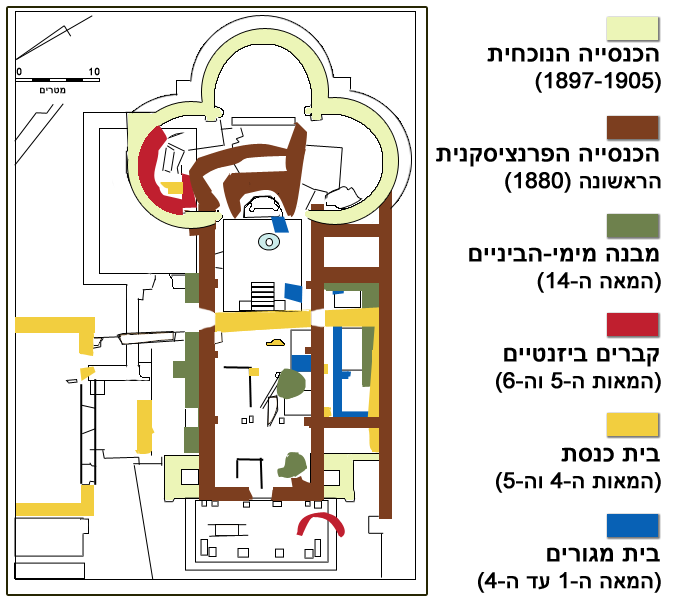 Based on [1]